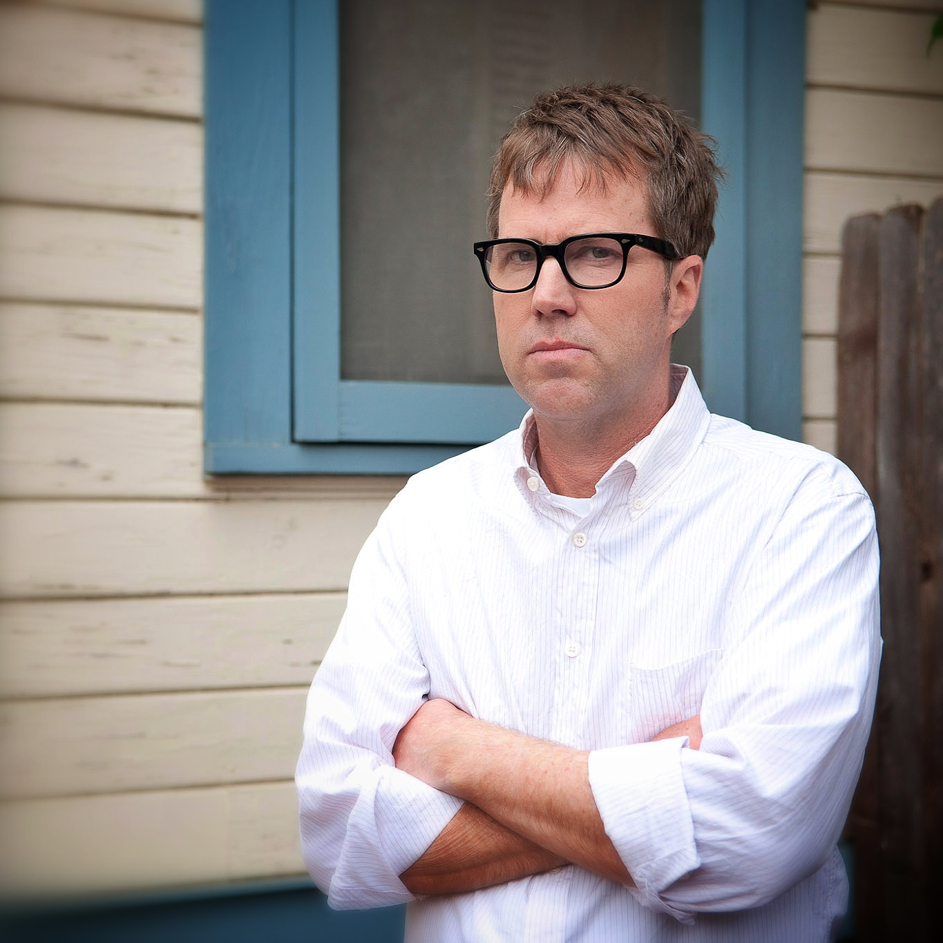 This image was taken of Bob Byington by Matthew Mahon in March 2014.